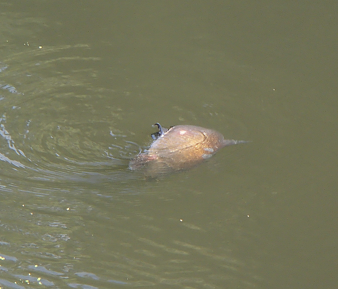 Dying bream in ditch